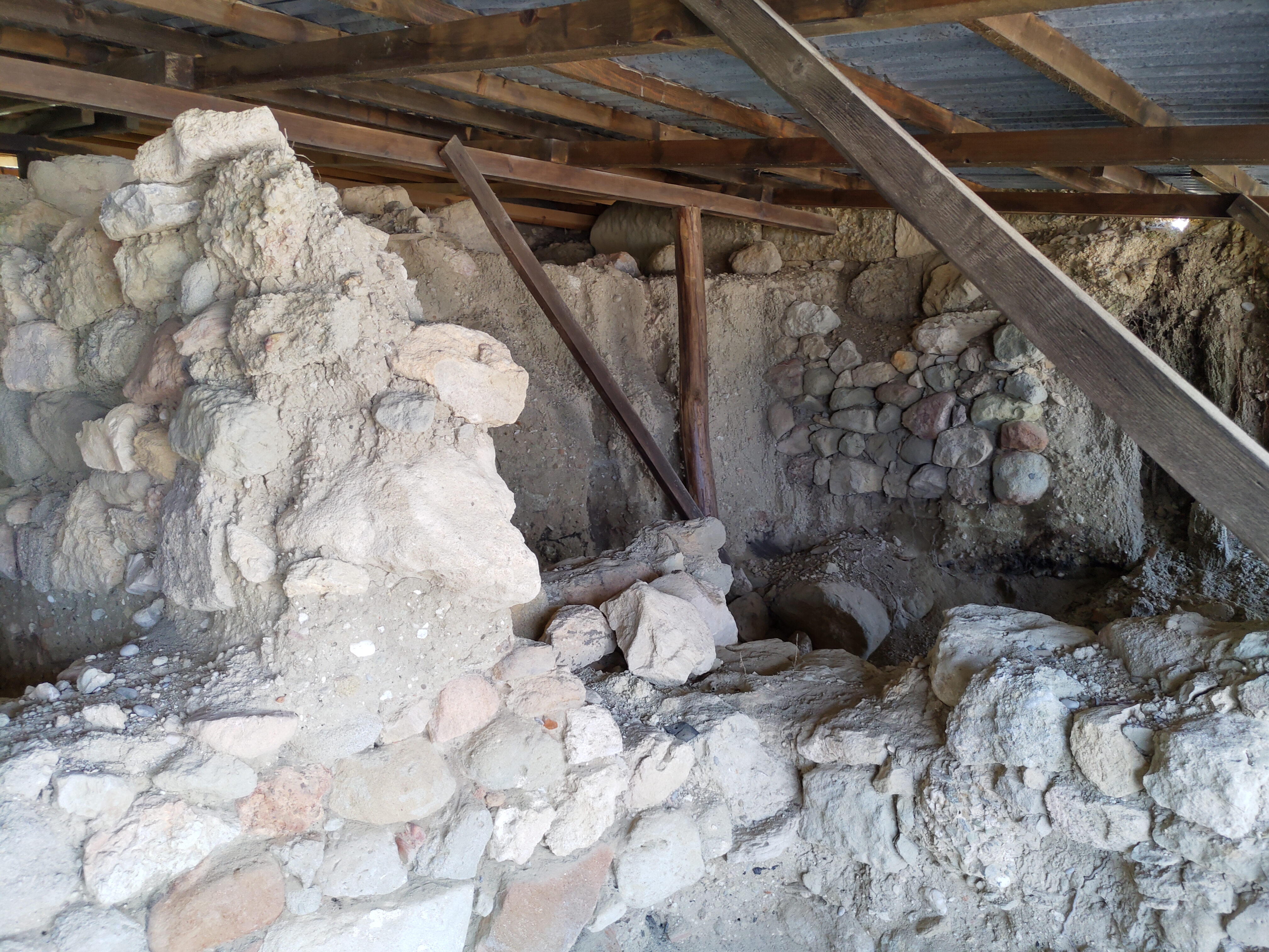 Archaeological site of ancient Mende in modern Kassandra, Chalkidiki, Greece.